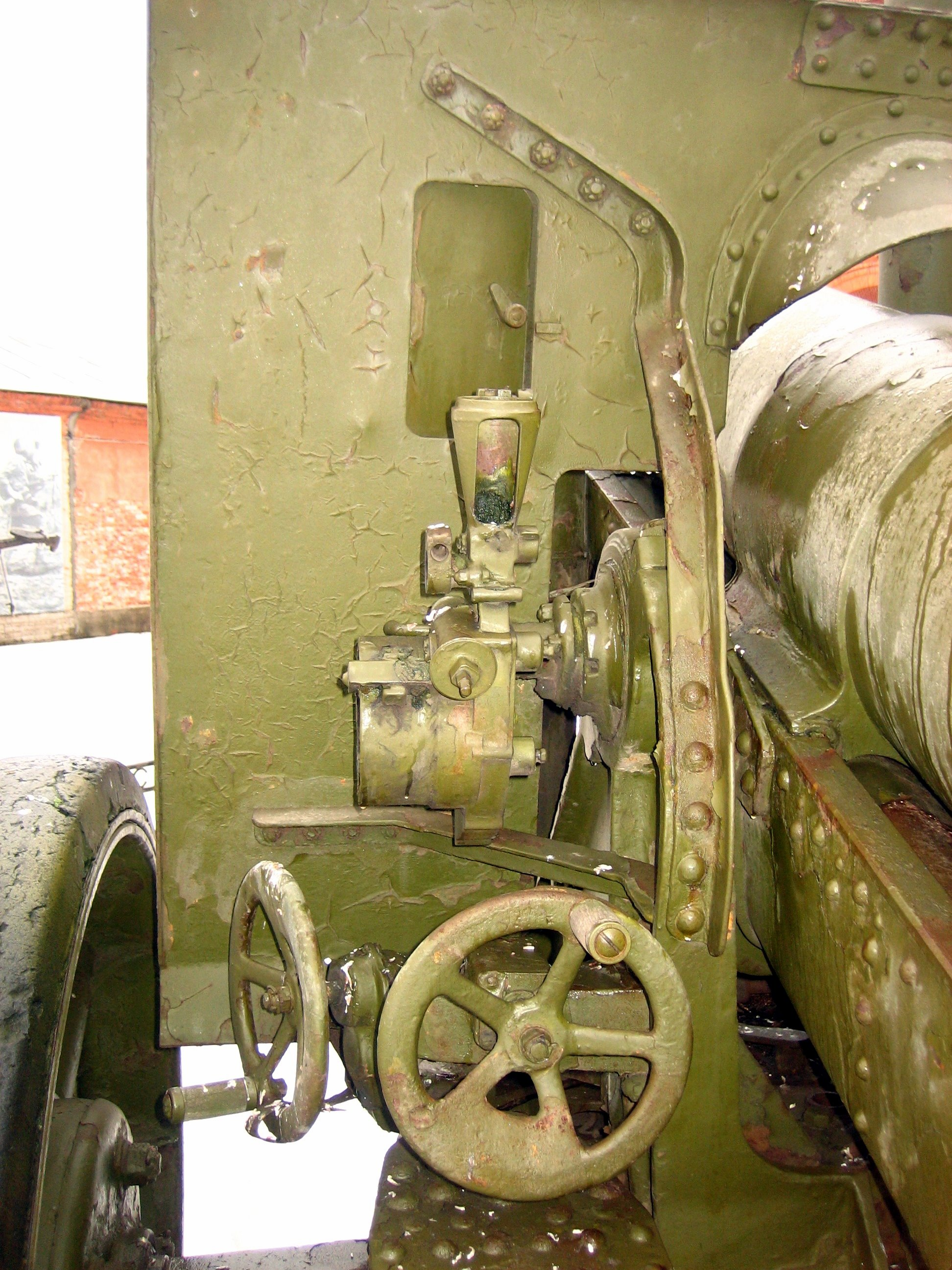 Soviet 122 mm А-19 Mark 1931 gun, displayed in Saint Petersburg Artillery Museum. Photo taken on 3 Marсh, 2007. Source: Photo by me, User:Saiga20K.